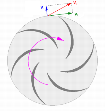 Schematic of centrifugal pump dynamics